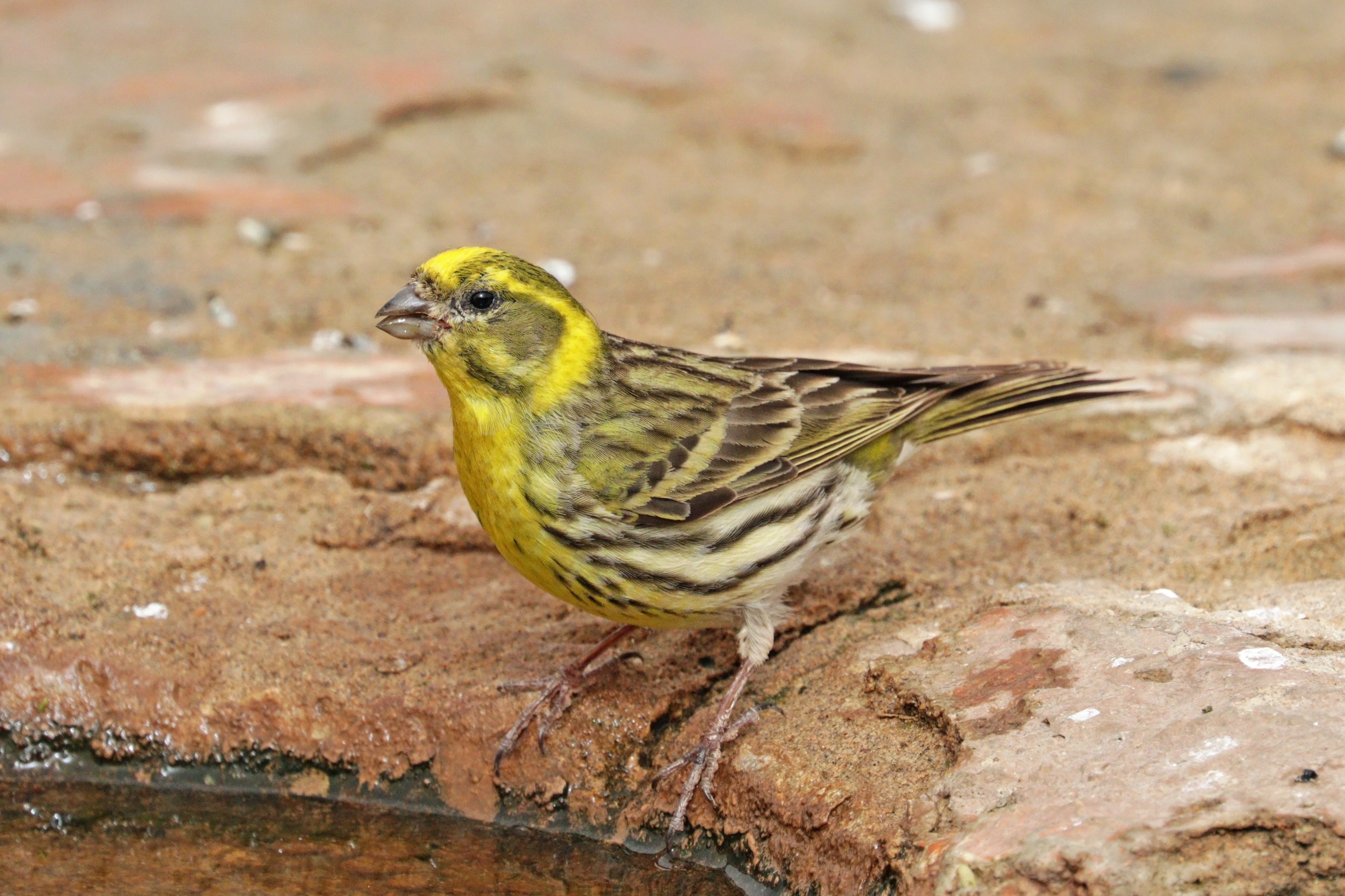 European serin (Serinus serinus) male, Souss-Massa National Park, Morocco